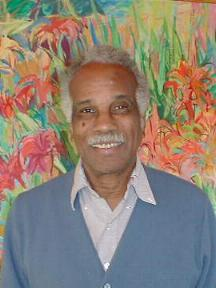 This image of Ashley Bryan was taken by Sue Hill in 2007 and published on her web site, , a companion site to her gift shop near Bryan's home town in Islesford, Maine. She sells his books in her shop, and he appears for book signings when his schedule permits. She gave permission to Erin Howarth to use this image in Wiki projects on April 12, 2009.